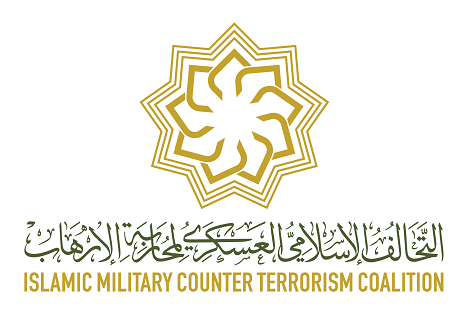 Official Logo of the IMCTC